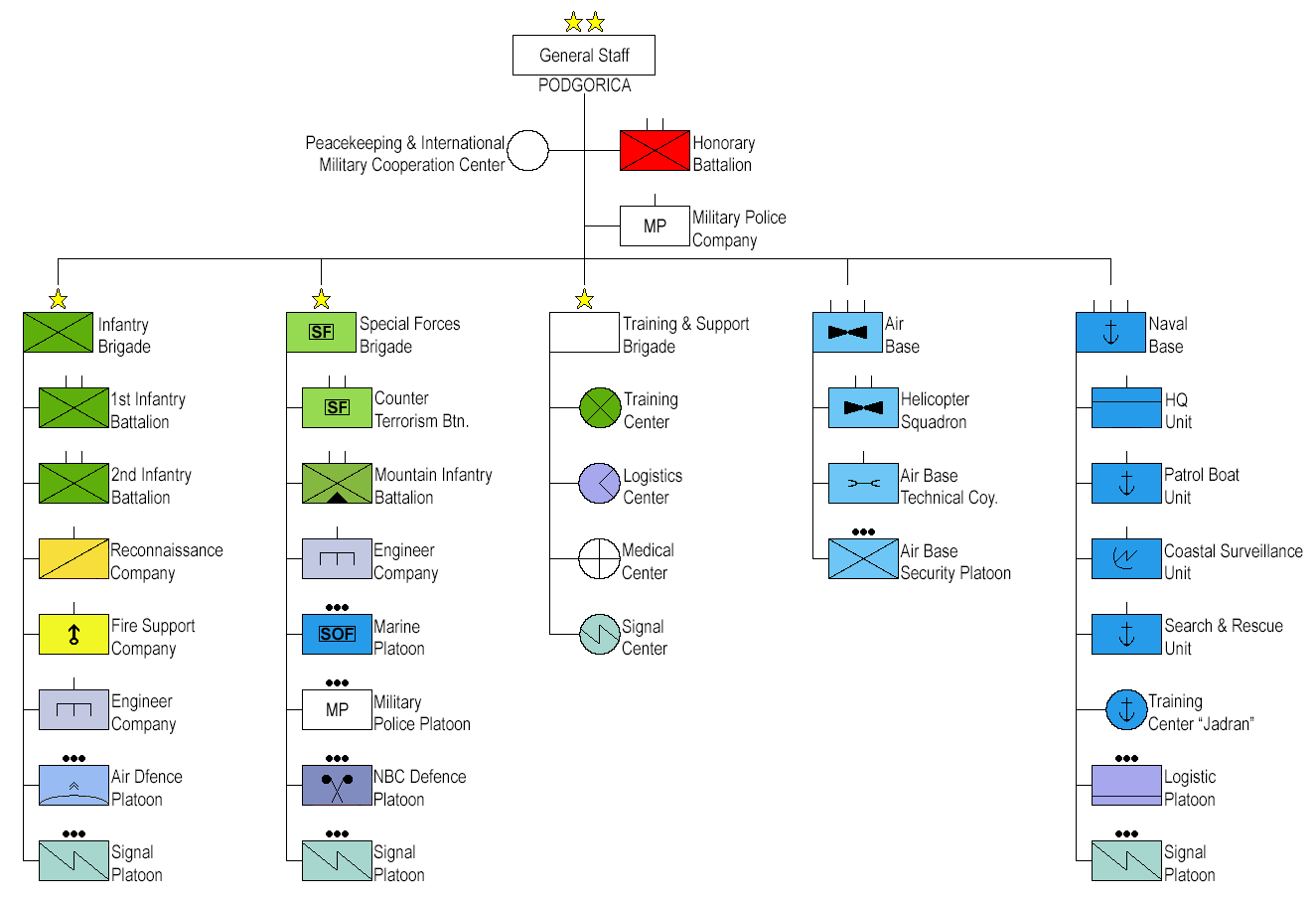 OrBat Grapic of the structure of the Armed Forces of Montenegro